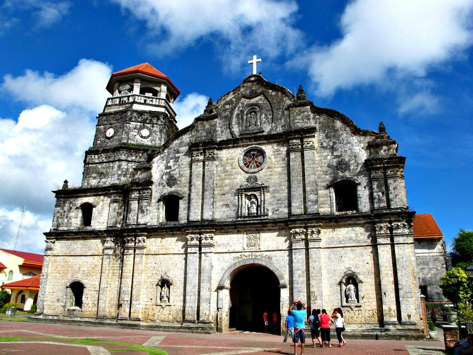 Facade of the Church of Panay